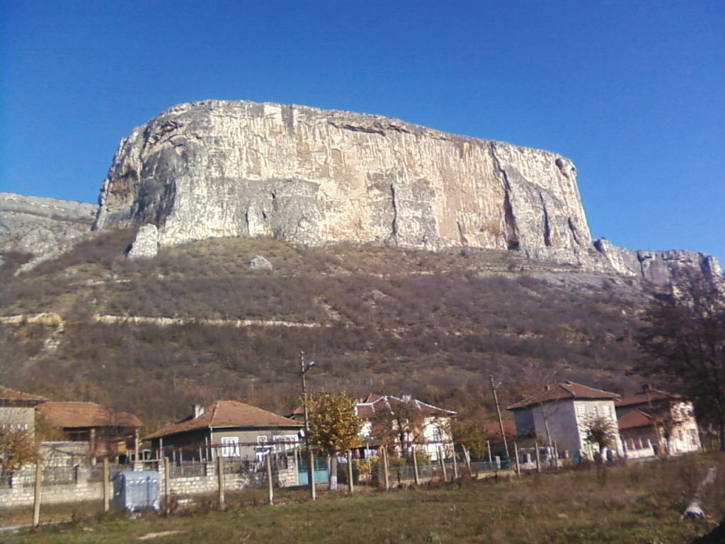 Chervenitza, natural monument (karst landform) near Kunino, Bulgaria.